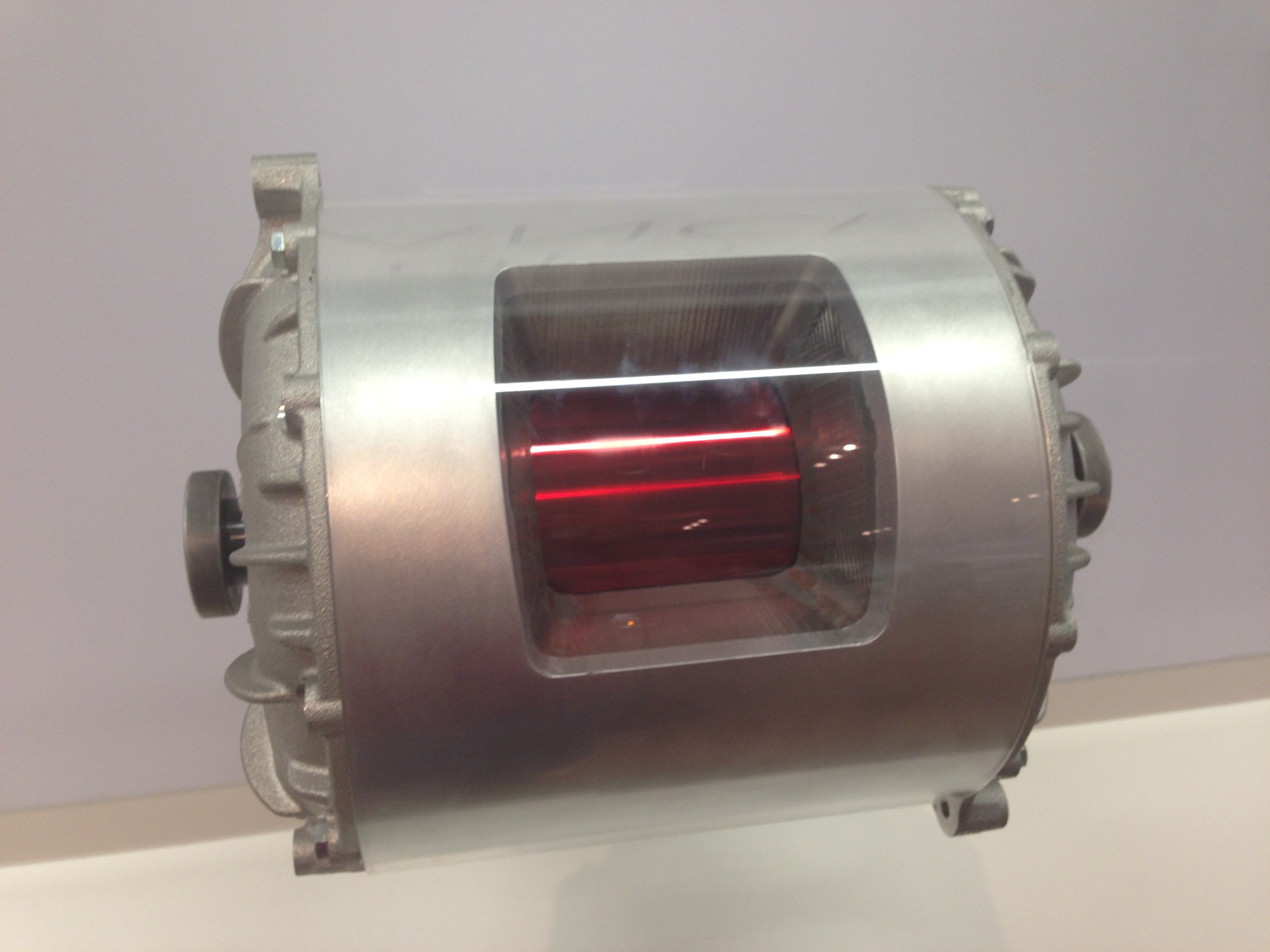 Cutaway view of the electric motor which powers the Tesla Model S